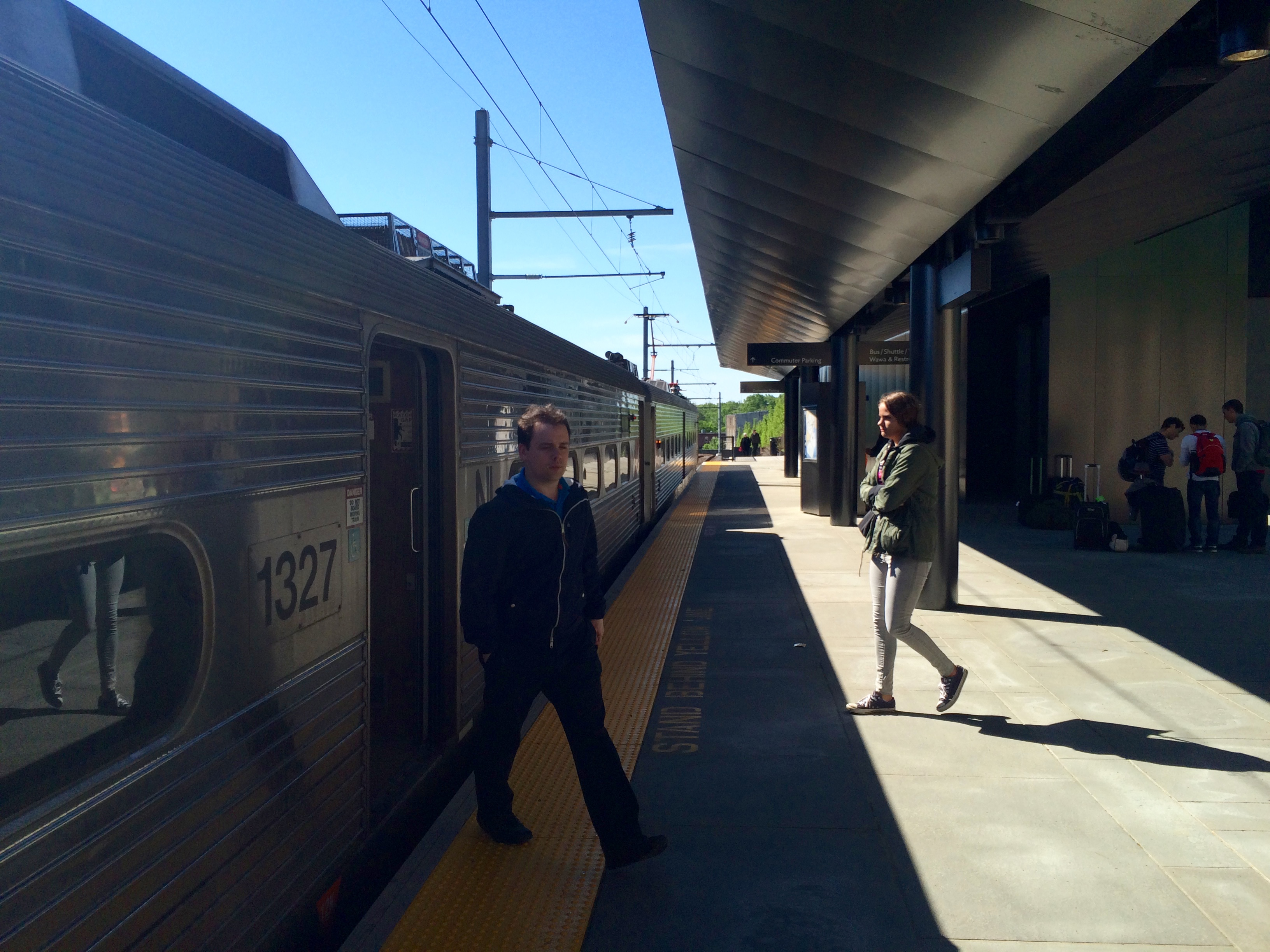 The new Princeton New Jersey Transit station on Alexander Street in Princeton, New Jersey. The station opened in November 2014